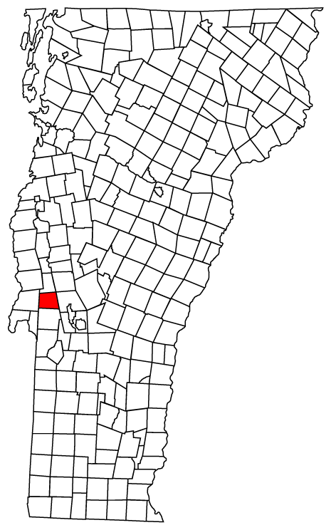 Description: Map of Vermont towns with Hubbardton highlighted Source: Map created by Jared C. Benedict on 26 March 2004. Copyright: © Jared C. Benedict.